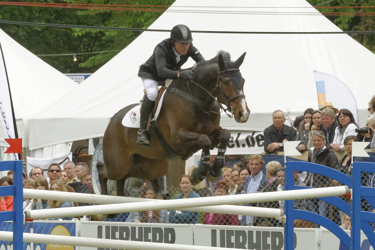 Internationales Pfingstturnier Wiesbaden 2013 The making of this document was supported by the Community-Budget of Wikimedia Germany.